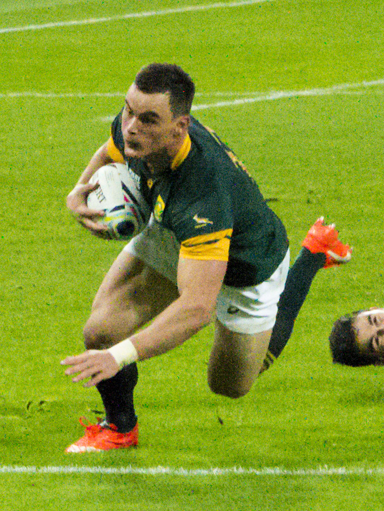 South African international rugby union footballer Jesse Kriel scoring a try during 2015 Rugby World Cup game between South Africa and the United States played at the Olympic Stadium in London.